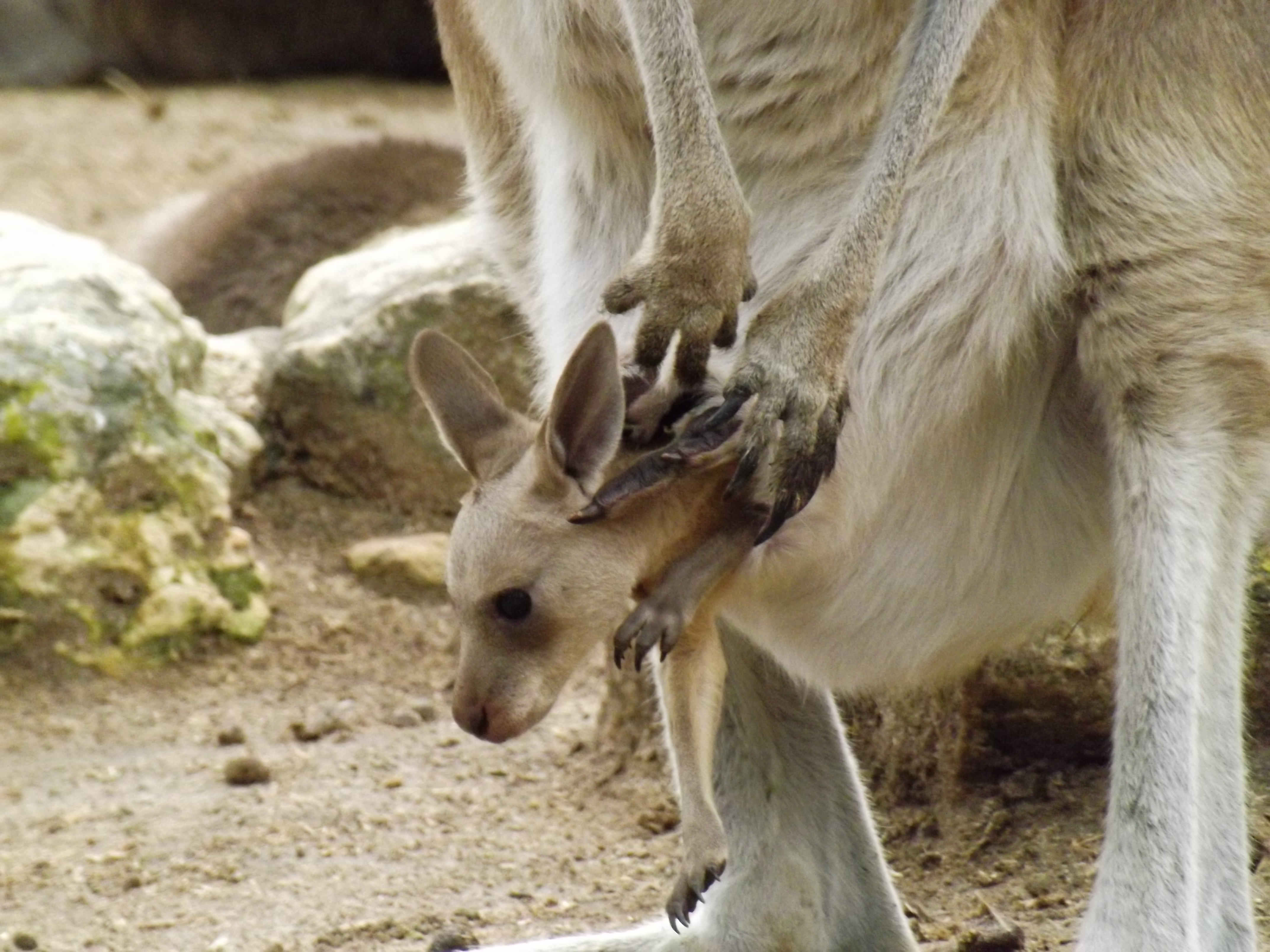 An Eastern grey kangaroo (Macropus giganteus) joey in the Australian section of the Jerusalem Biblical Zoo.